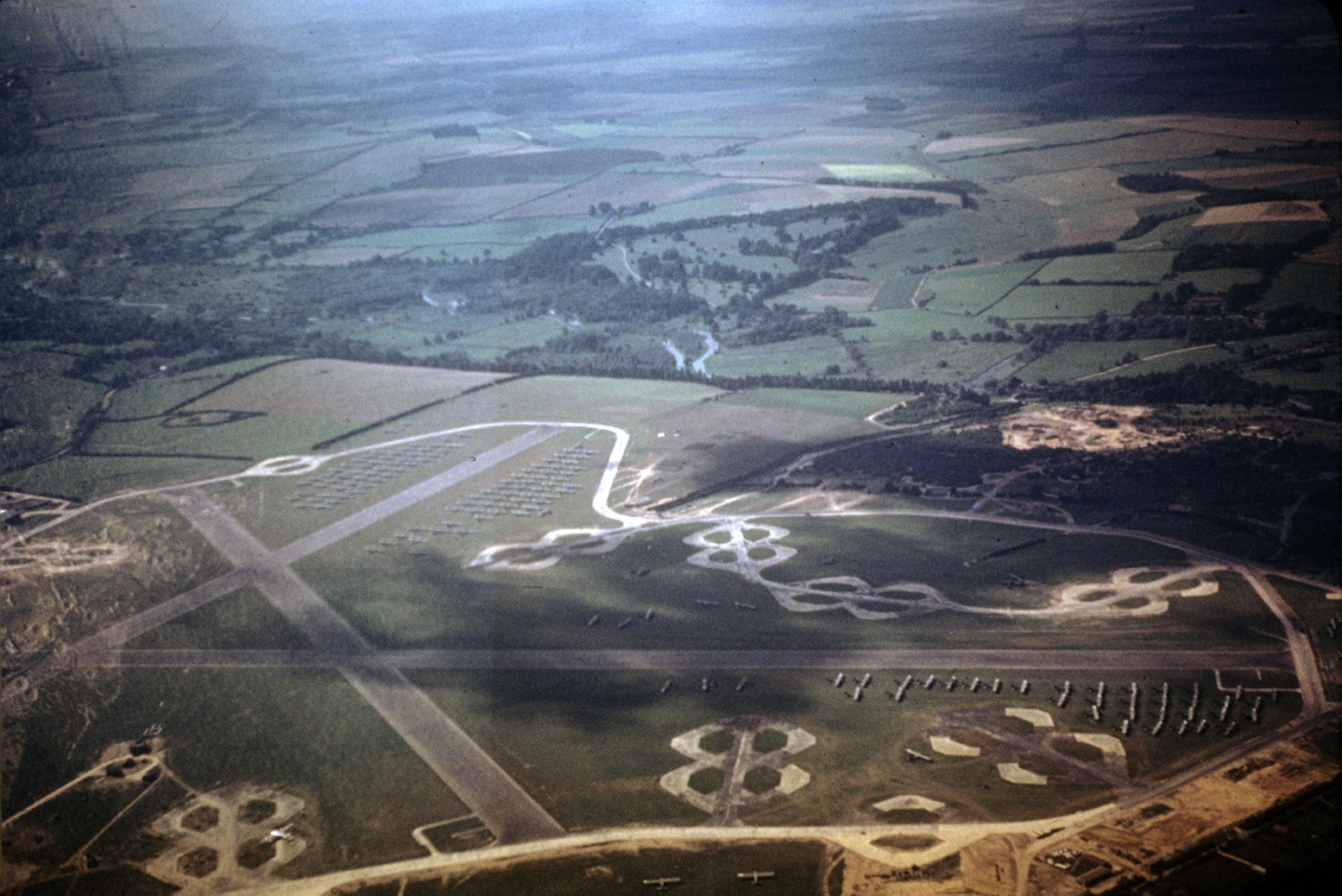 442d Troop Carrier Group at Chilbolton airfield just before Operation Market Garden.